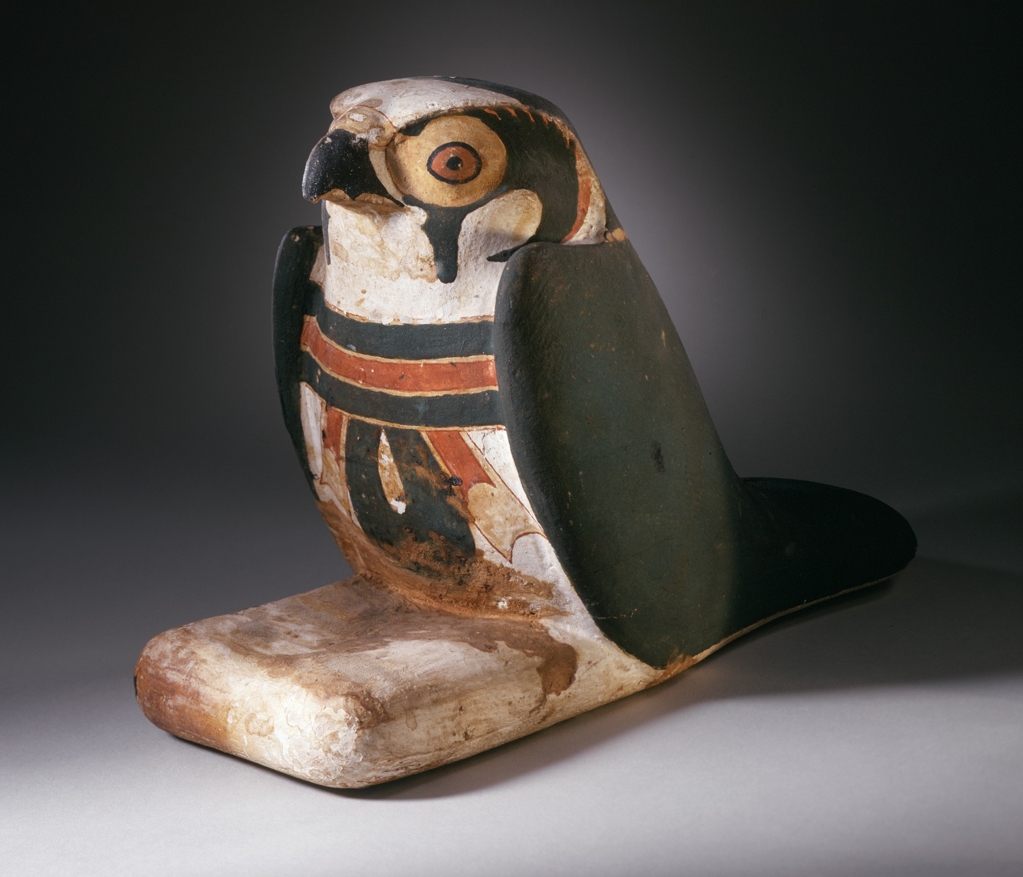 Egypt, Third Intermediate Period (1070 - 712 B.C.) Sculpture Wood, gesso and polychrome paint Height: 8 7/8 in. (22.6 cm); Length: 14 3/8 in. (36.5 cm); Width: 4 1/2 in. (11.5 cm) William Randolph Hearst Foundation (50.4.19) Egyptian Art Currently on public view: Hammer Building, floor 3